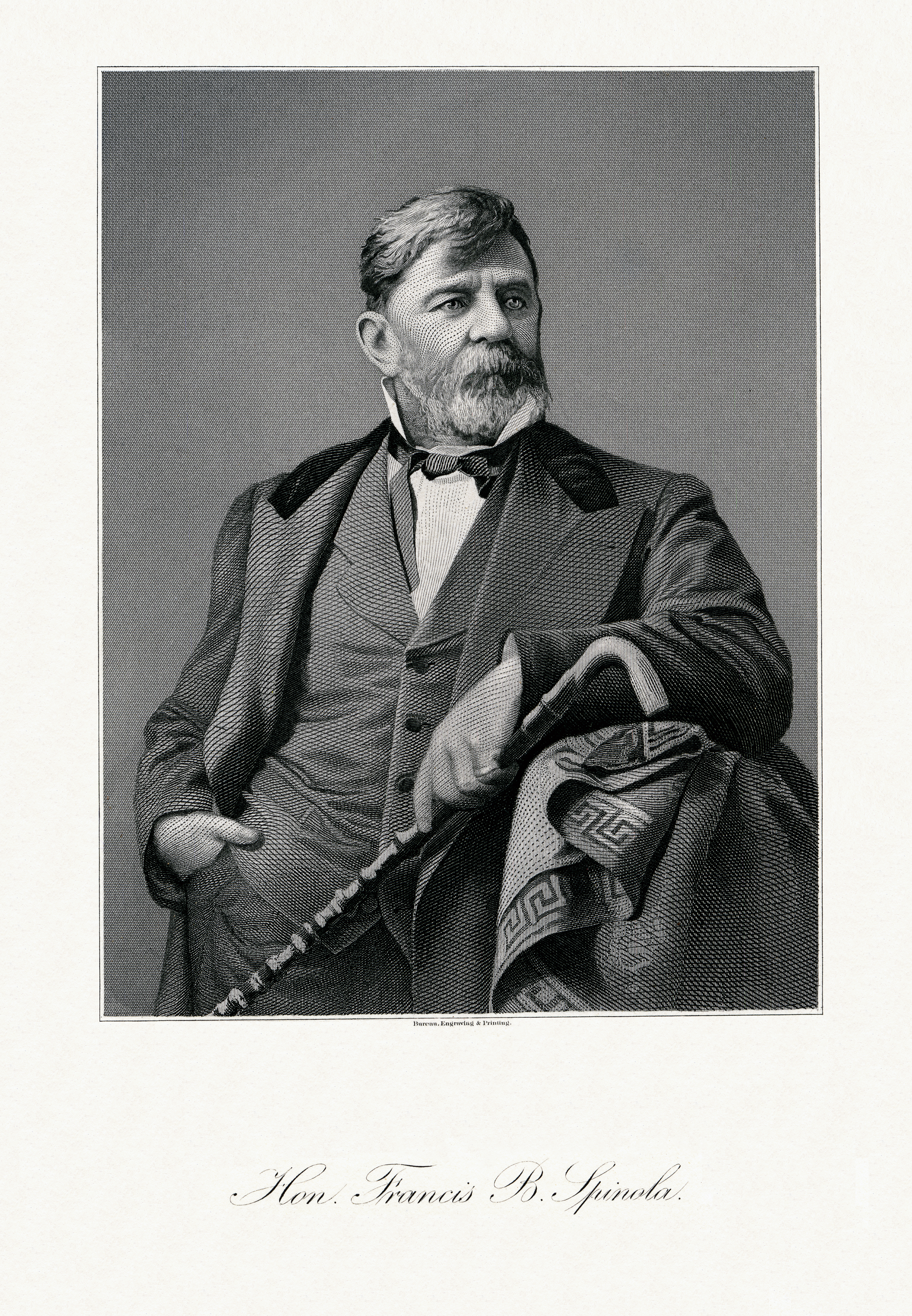 Bureau of Engraving and Printing engraved portrait of Rep. Francis B. Spinola, NY, 10th district, 1887 – 1891.